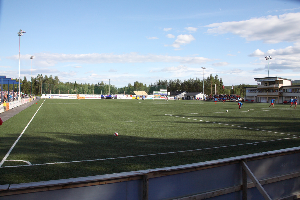 Nybergsund stadion - the football field in Nybergsund